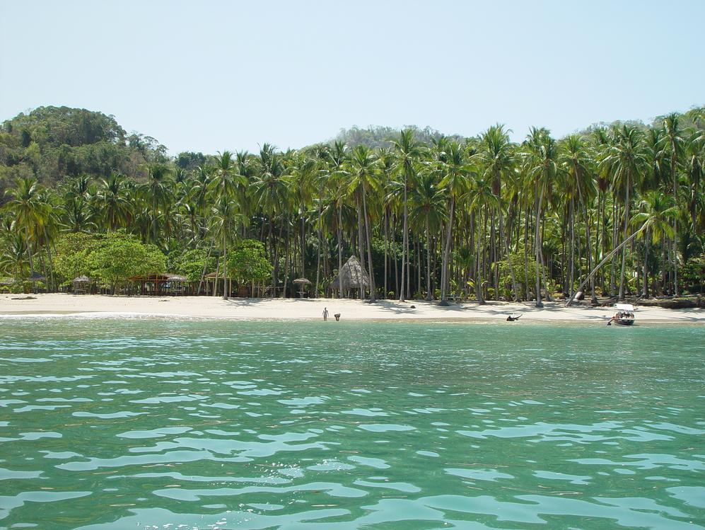 Isla Tortugas Puntarenas Costa Rica